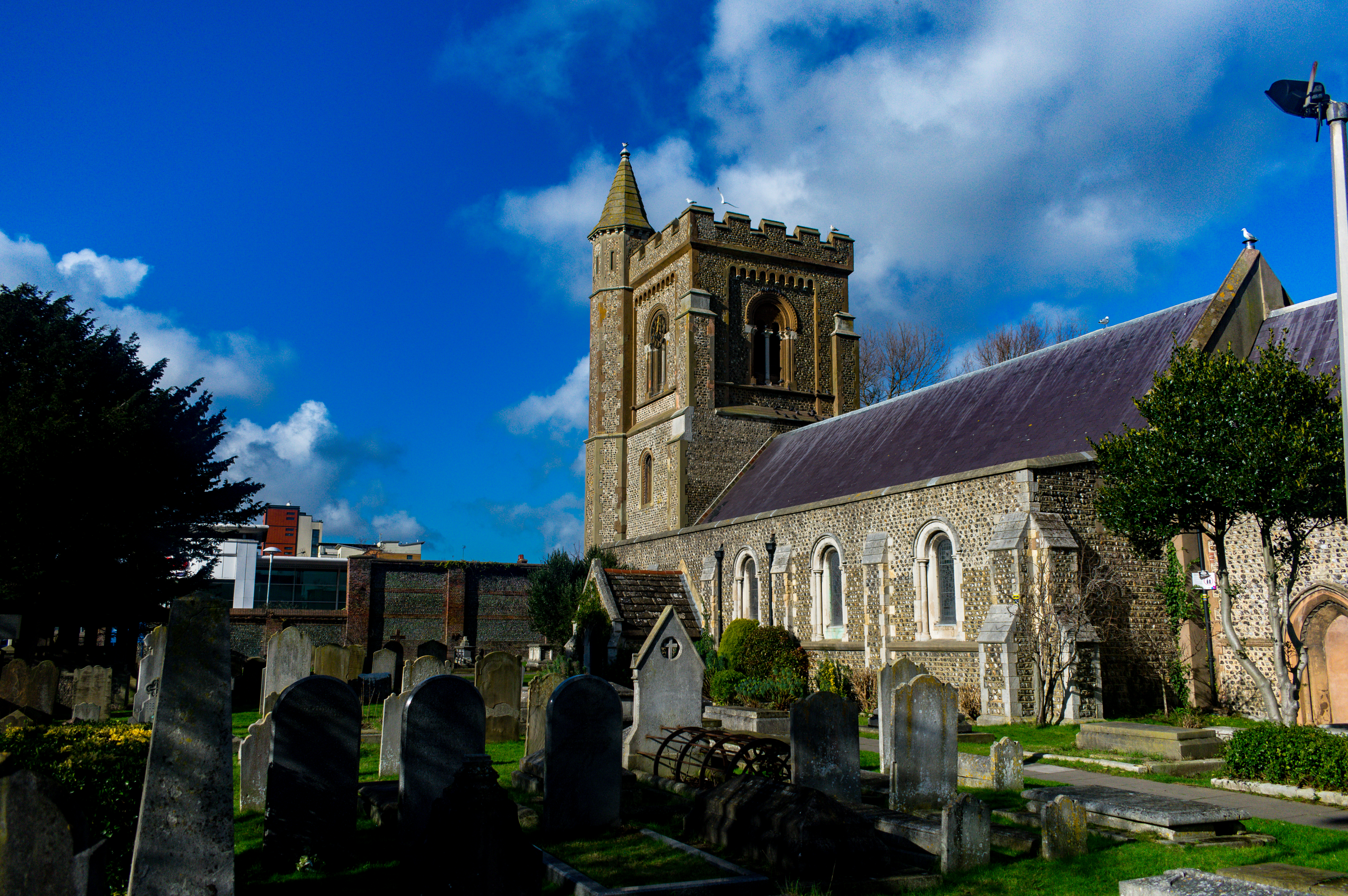 St Andrew's Church (Church Road) in Hove, East Sussex.